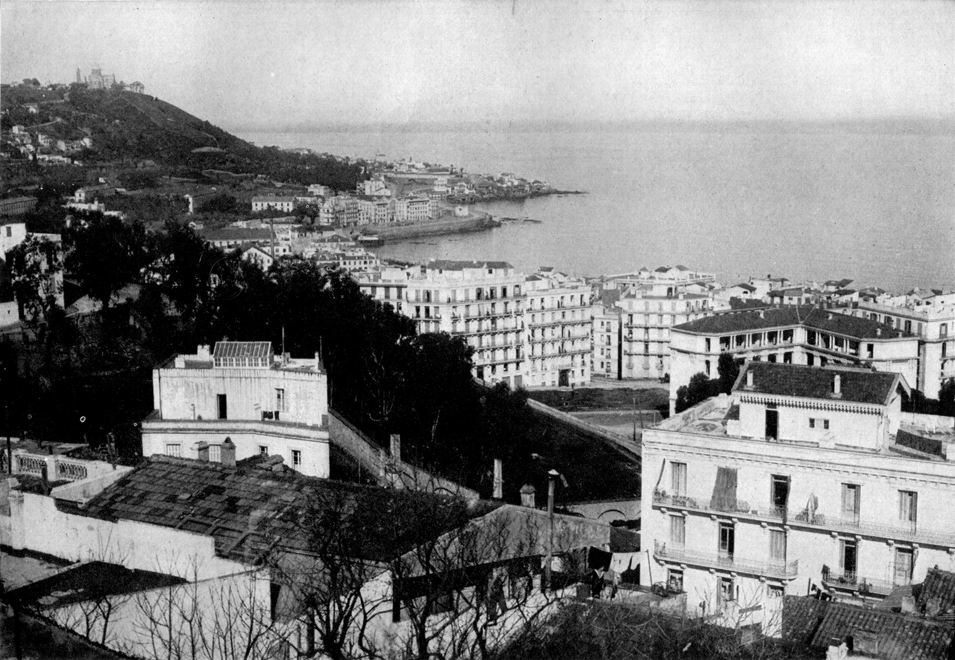 The city and harbor of Algiers, Algeria.